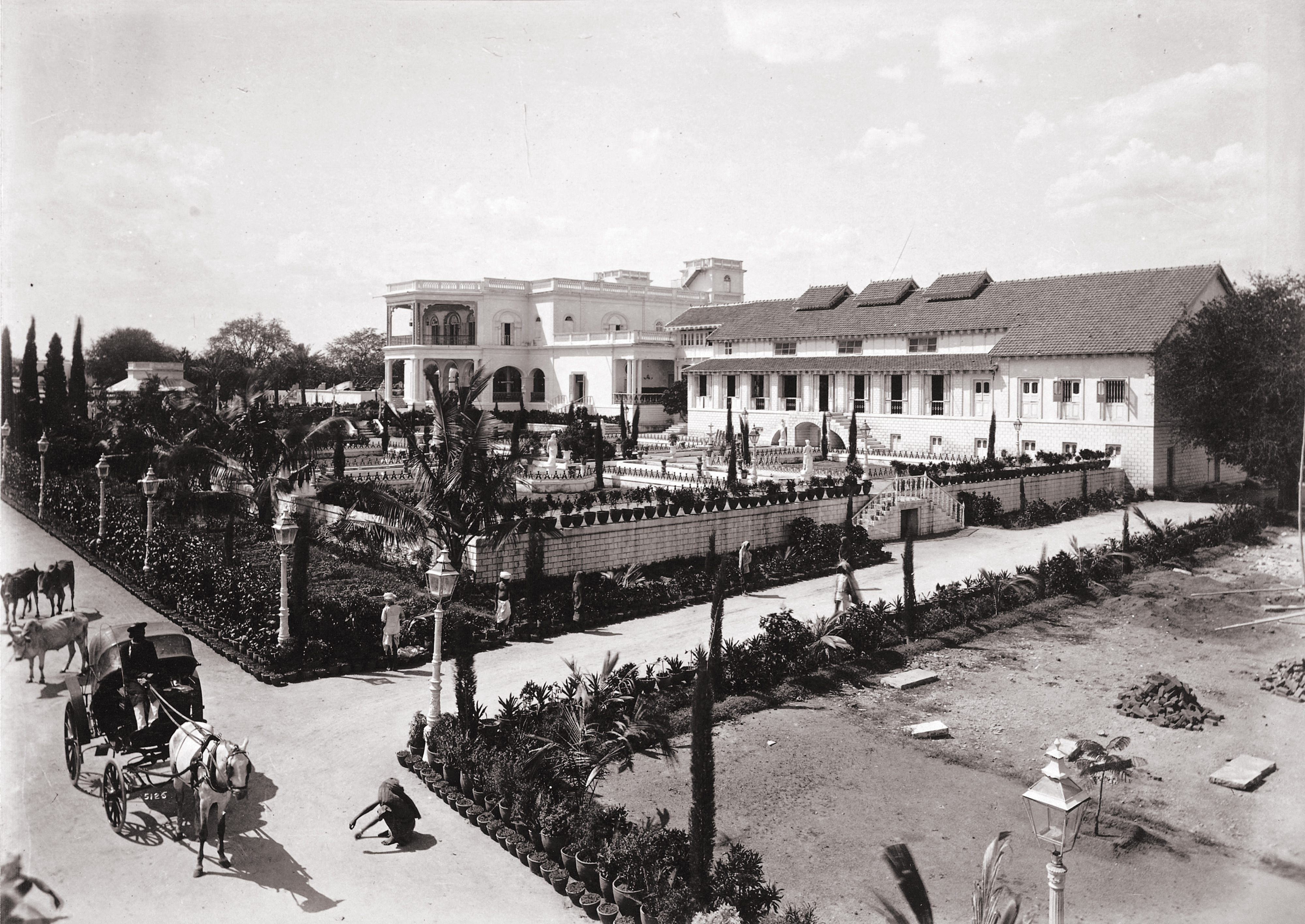 Photograph of the Bashir Bagh Palace, Hyderabad, Andrea Pradesh, taken by Deen Dayal in the 1880s, from the Curzon Collection: 'Views of HH the Nizam's Dominions, Hyderabad, Deccan, 1892'. The Palace was constructed by Asman Jah who was Prime Minister of Hyderabad from 1887 to 1894. The palace has since been dismantled, however the area is still known as Basheerbagh.